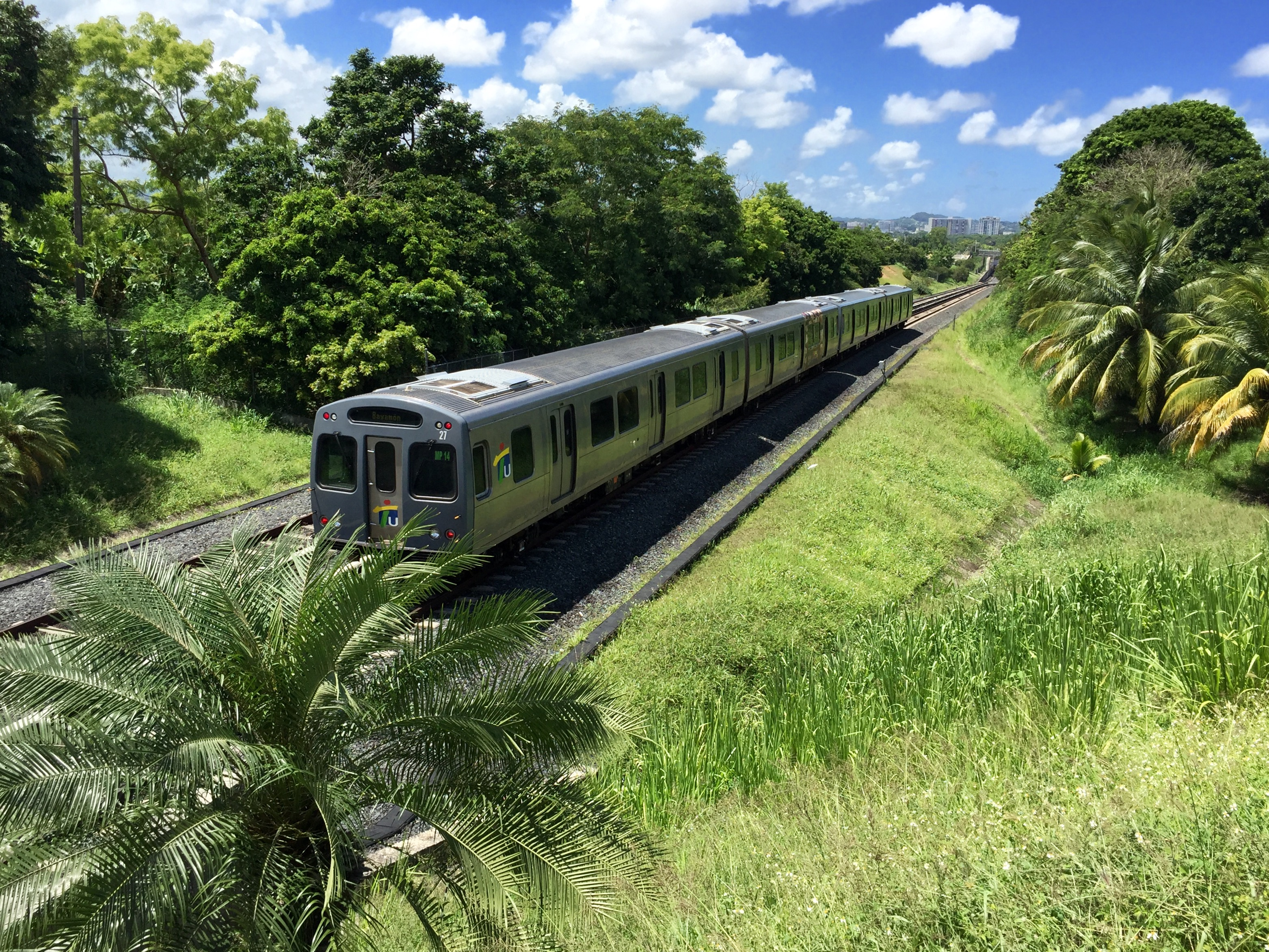 Tren Urbano @ ground-level leaving Torrimar station